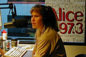 Terri Irwin on San Francisco morning radio show, Sarah and Noname, on a visit to the US with her husband Steve.